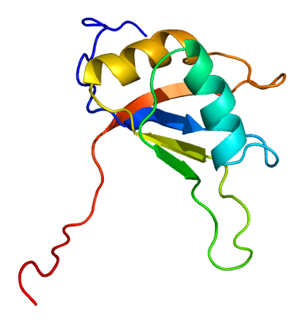 Structure of the CIRBP protein. Based on PyMOL rendering of PDB 1x5s.